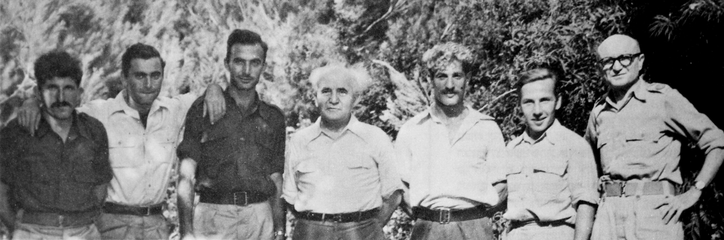 The Israeli naval service's sabotage unit that sank the Egyptian flag ship Emir Farouk near Gaza. From left to right: Zalman Abramov, Yohai Bin-Nun (commander), Ya'akov Reitov, David Ben-Gurion (Prime Minister), Ya'akov Vardi, Yitzhak Brockman, Ya'akov Dori (Chief of Staff).